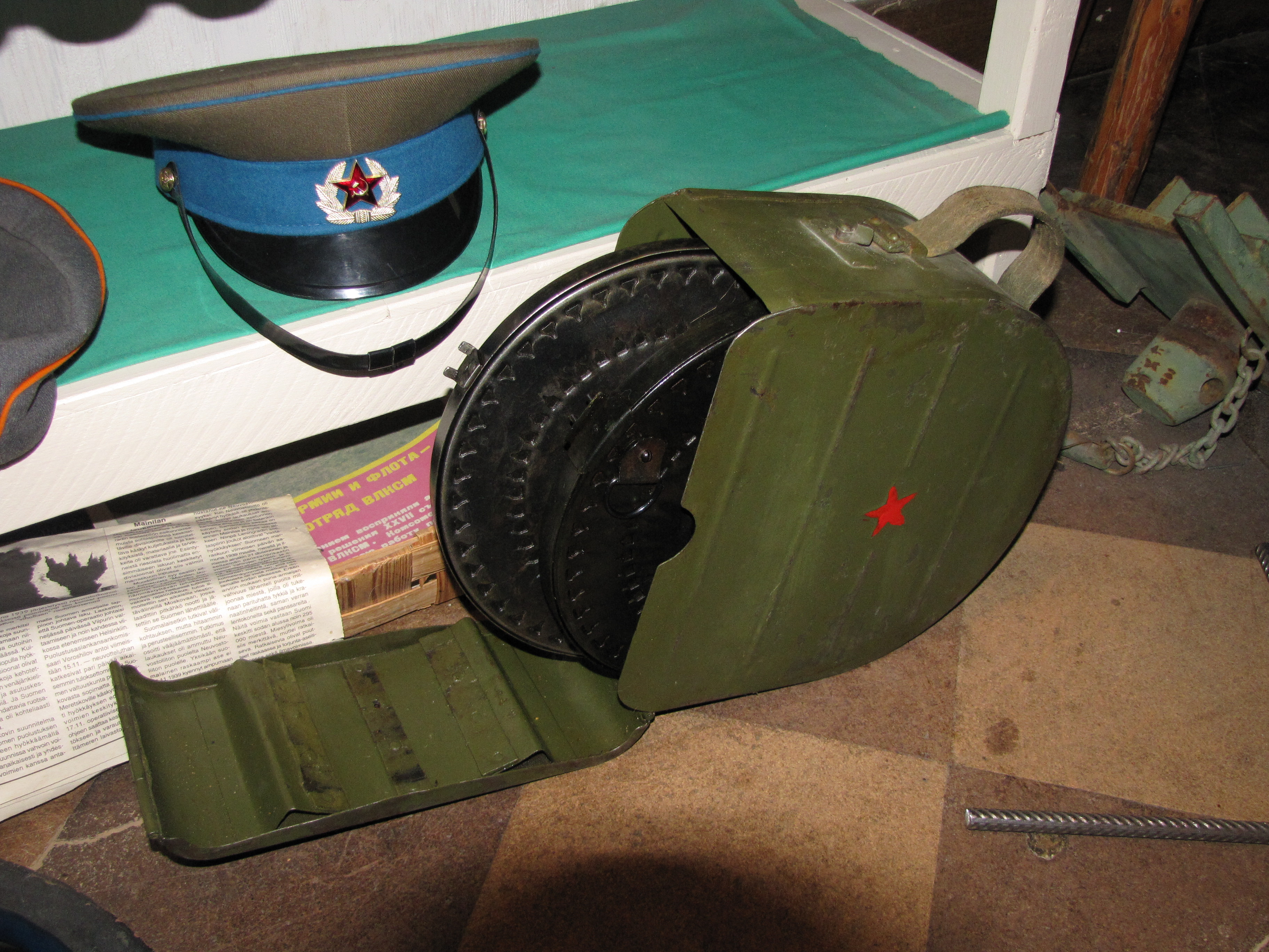 Degtyarev light machine gun magazine carrying container in Imatra Veteran and Lotta museum.